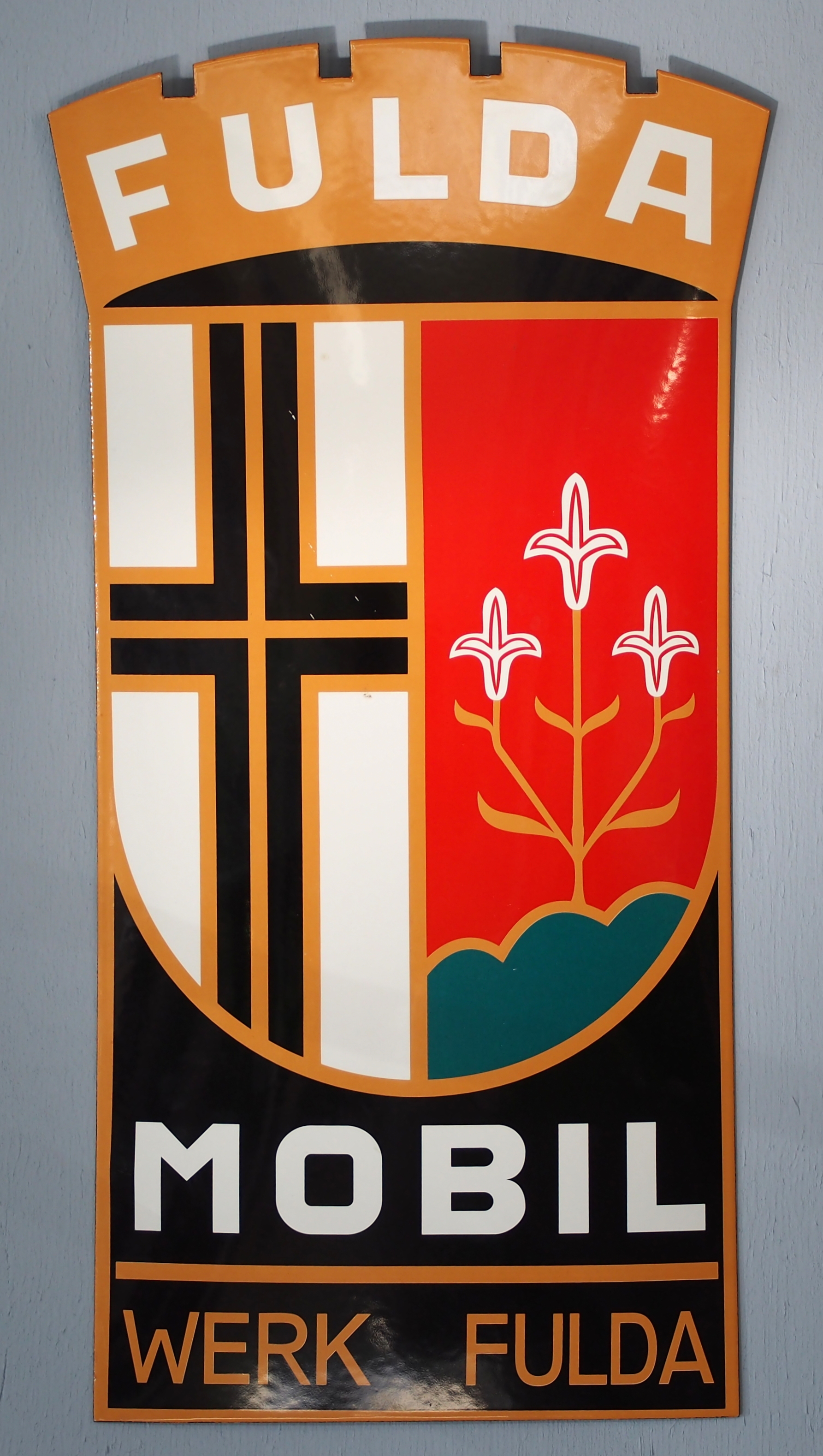 Photographed at the Auto & Uhrenwelt Schramberg museum.